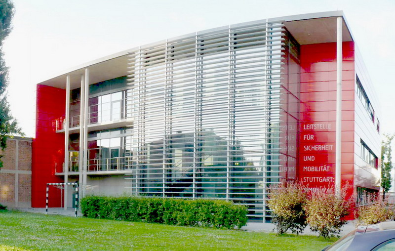 Center for security und mobility in Stuttgart, named SIMOS